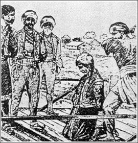 Illustration of the Dahije beheading a Serb knez (Slaughter of the Knezes). Most likely a late 19th-century engraving from a Serbian magazine.